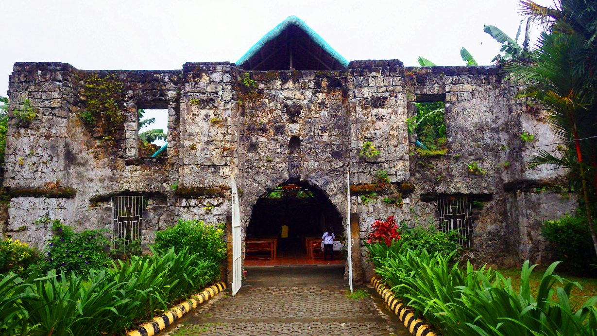 facade